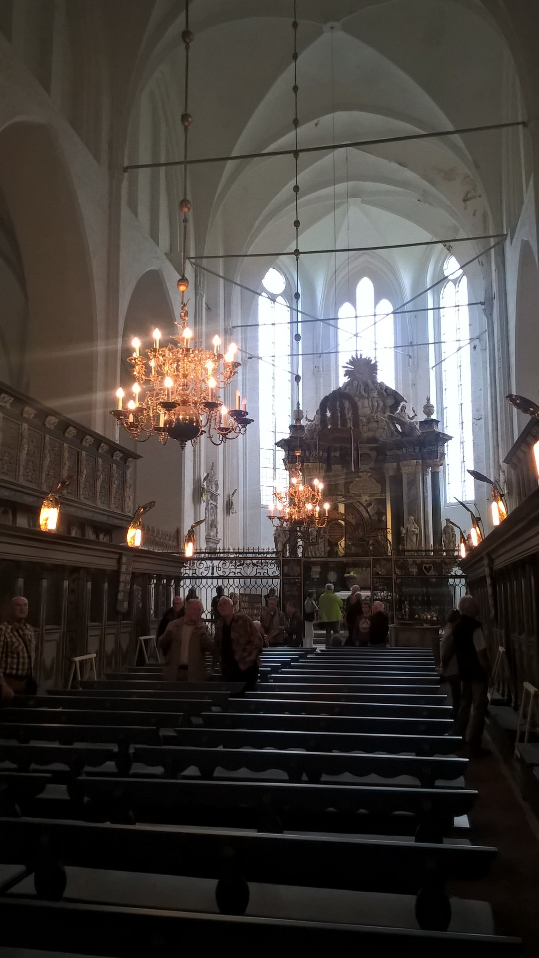 Klosterkirche Preetz, Nuns Chorus